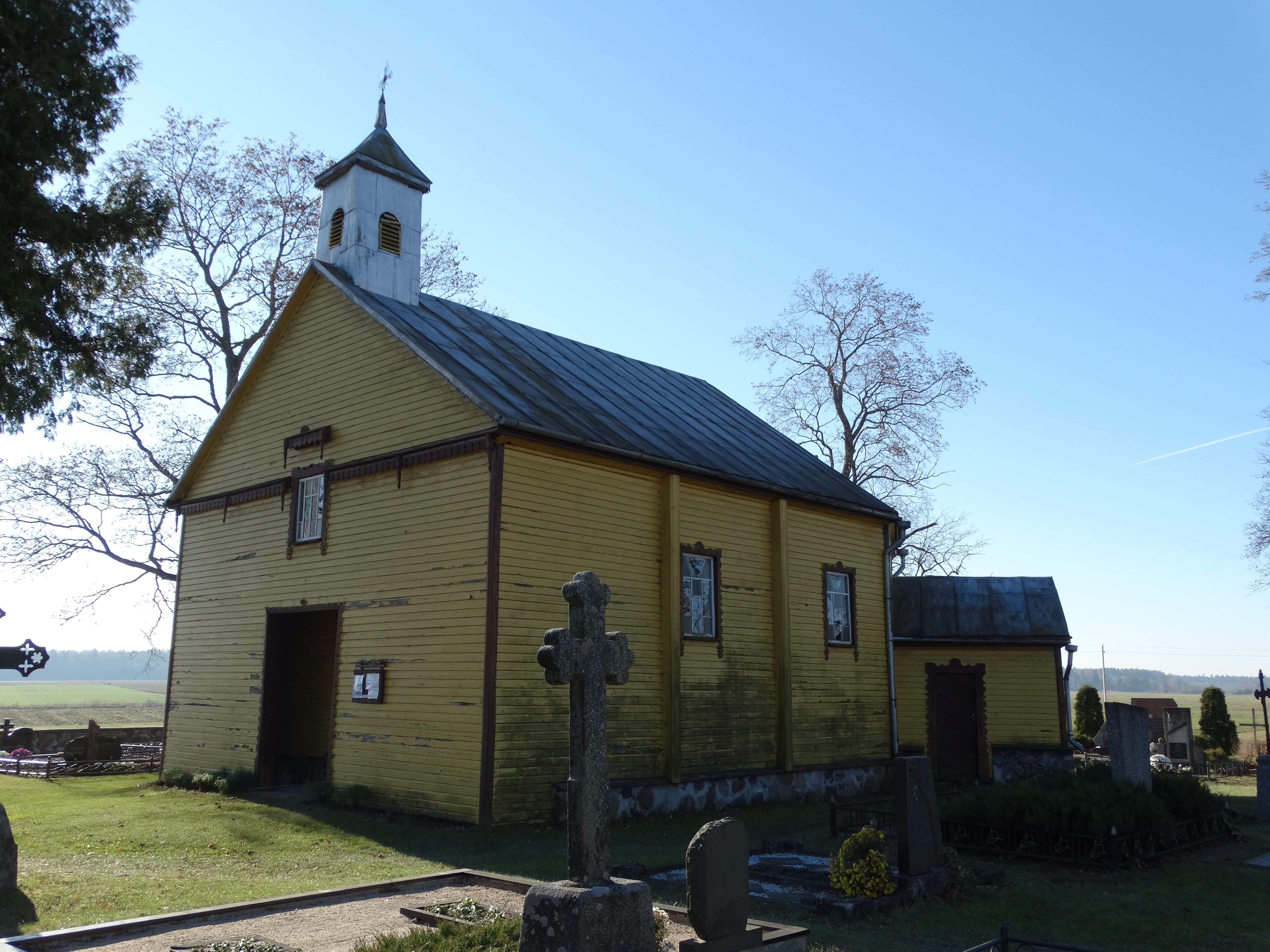 Chapel in Sodeliai, Panevėžys district, Lithuania